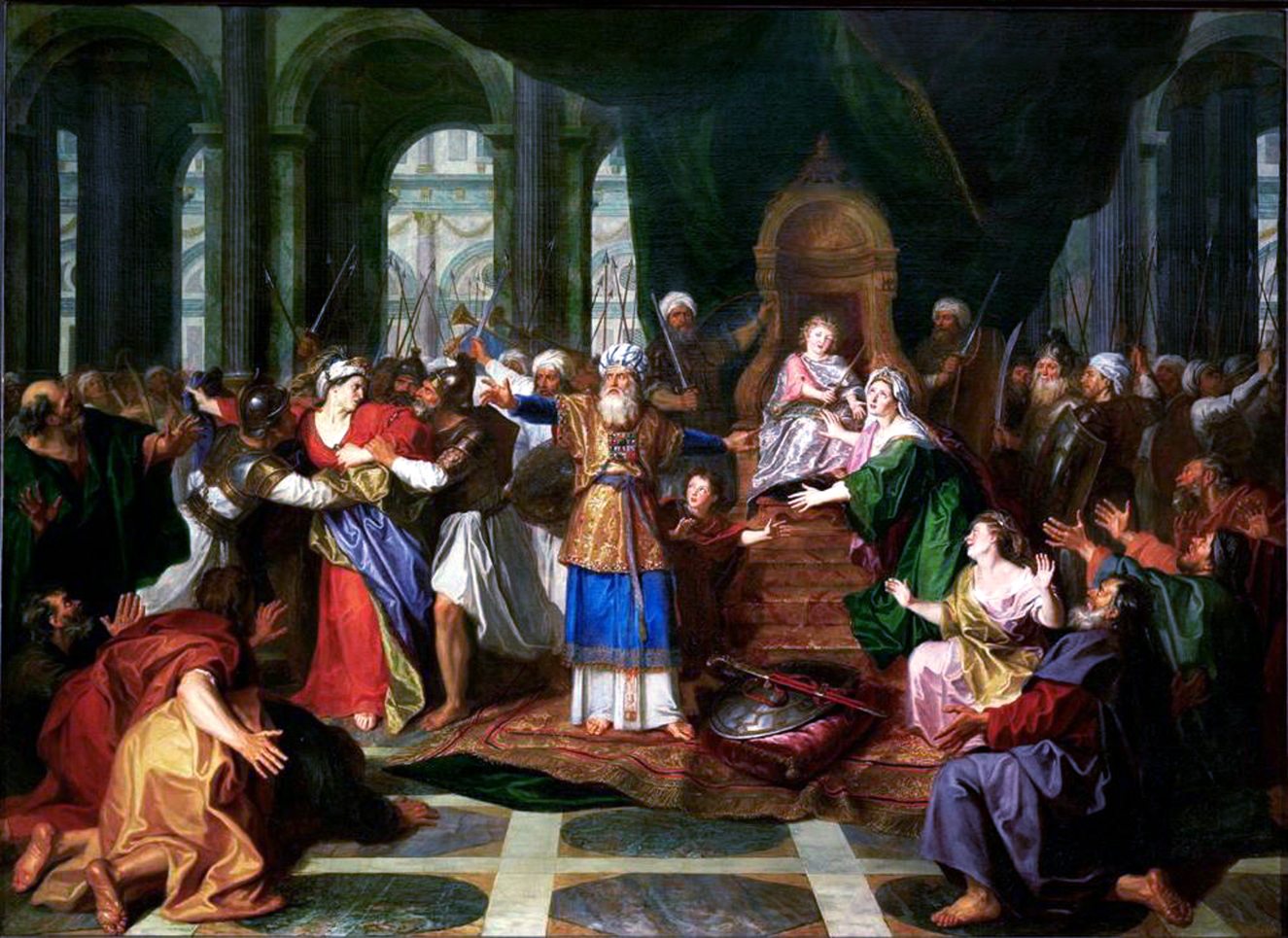 Athaliah Expelled from the Temple by Antoine Coypel